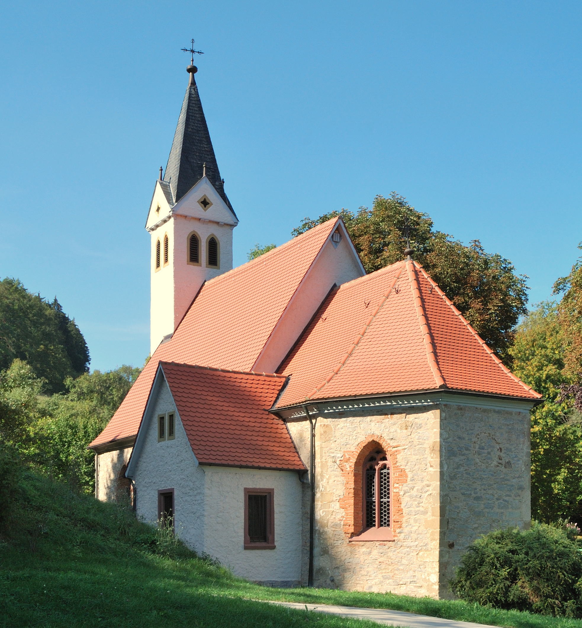 St. Anne chapel in Mulfingen in the district of Hohenlohe in Germany.